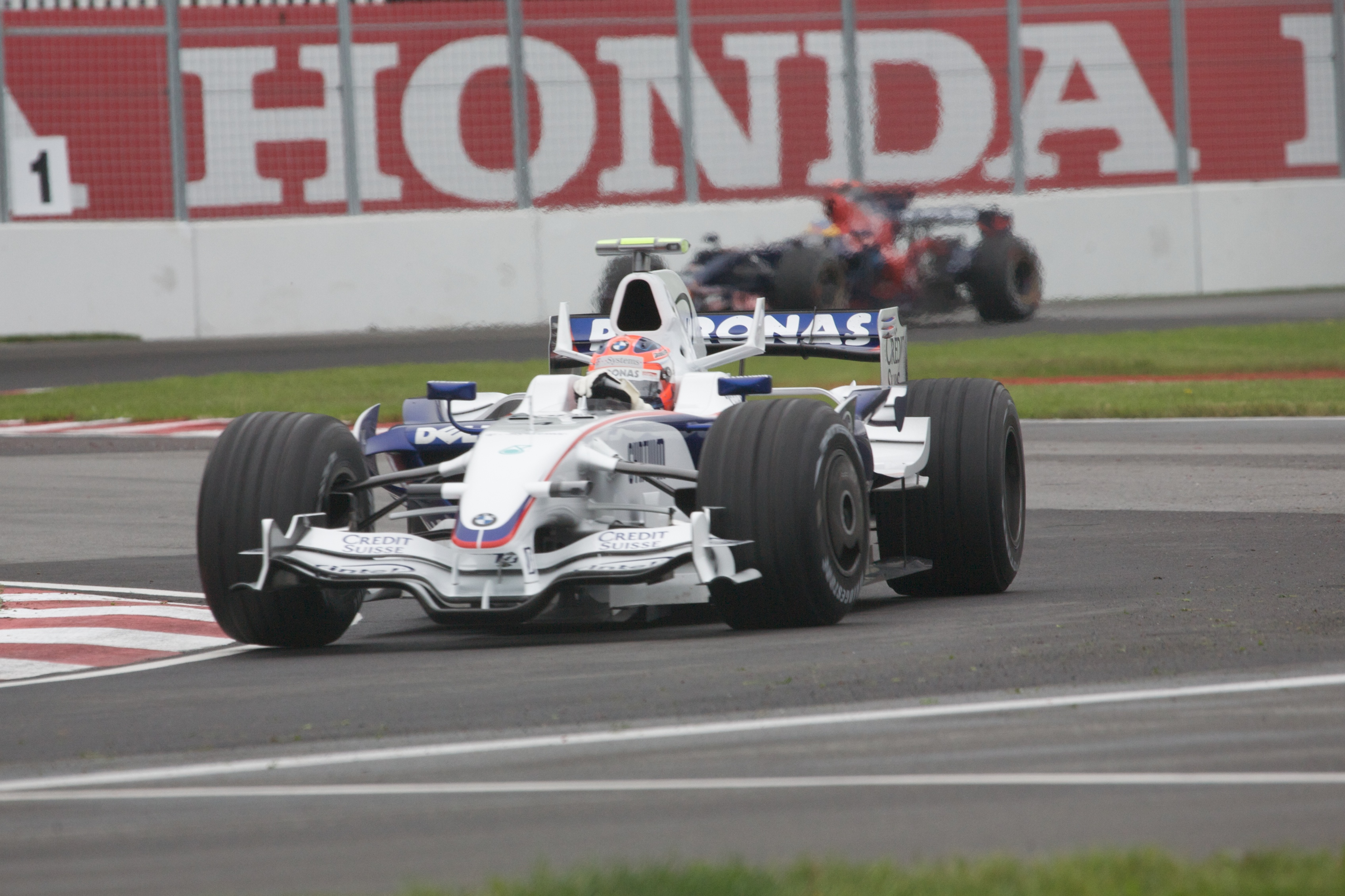 Robert hits the apex of turn 2 as a Toro Rosso brakes into turn 1